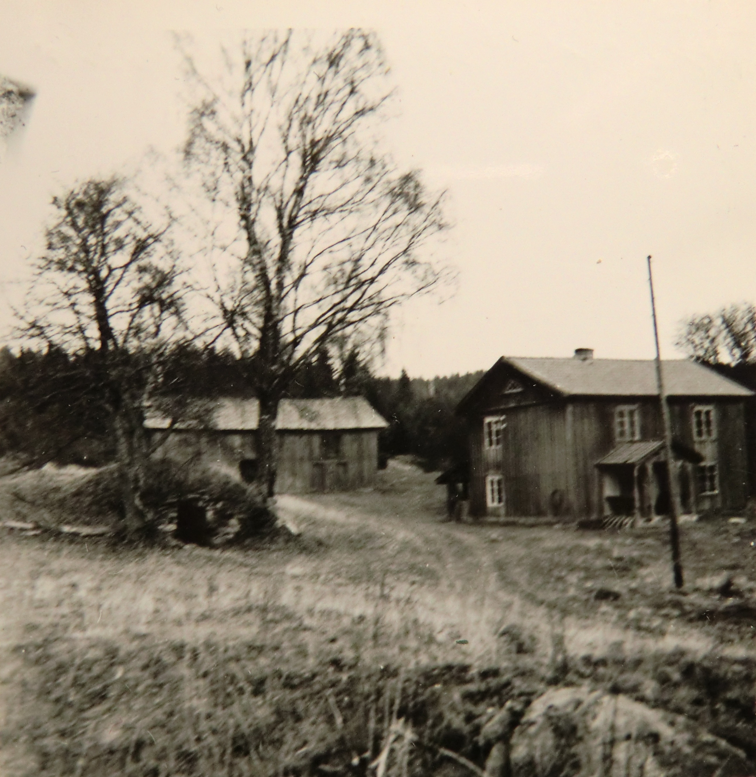 The farm Berg in Grinnemo, Gräsmark, Sweden. The upper floor of the house was used to construct a restaurant on Tossebergsklätten.